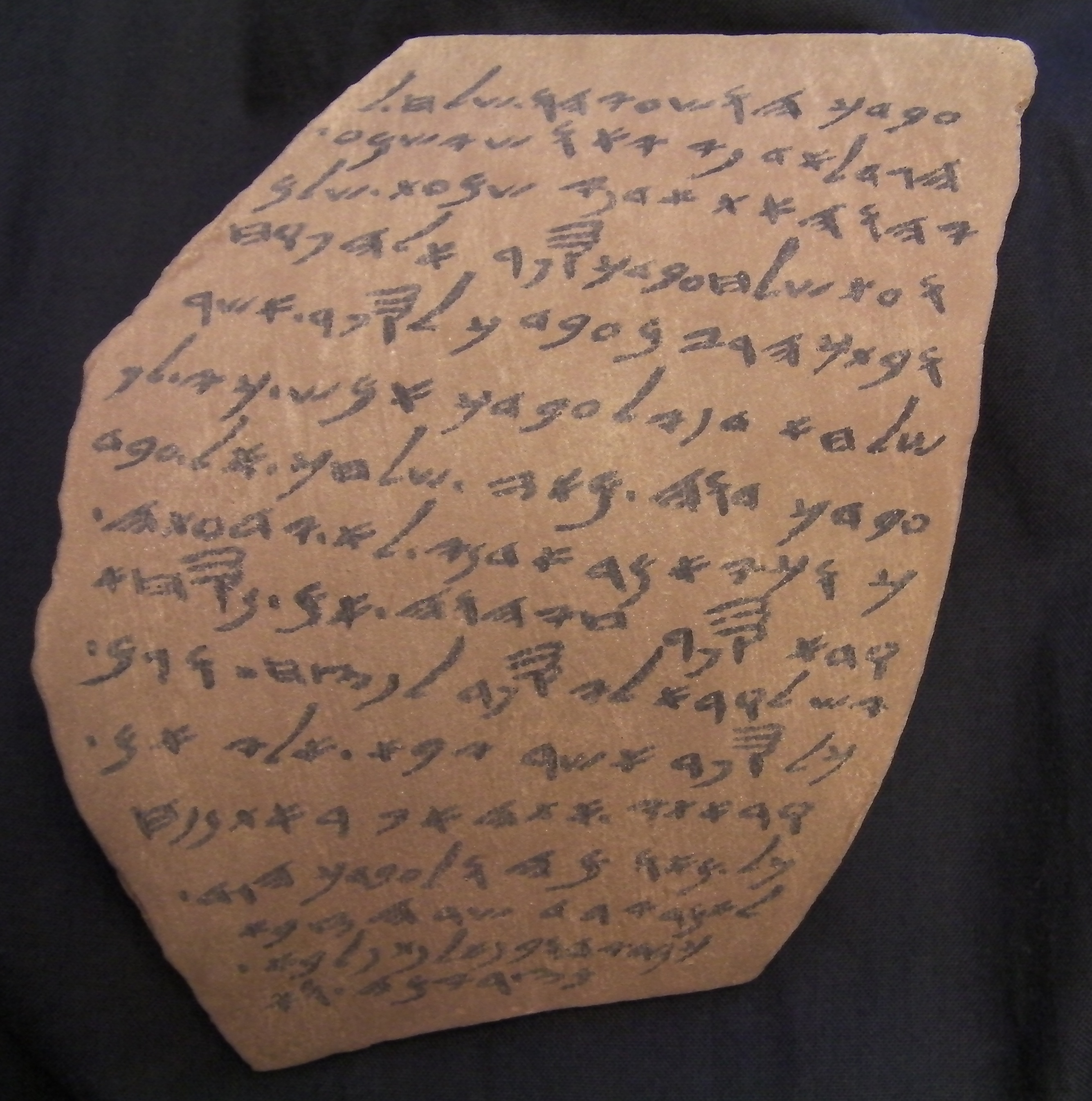 Front side of a replica of Lachish Letter III